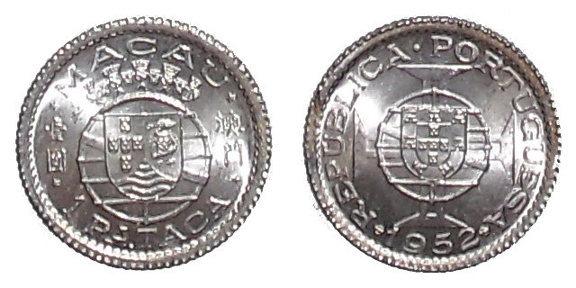 Macau 1Pataca 1952